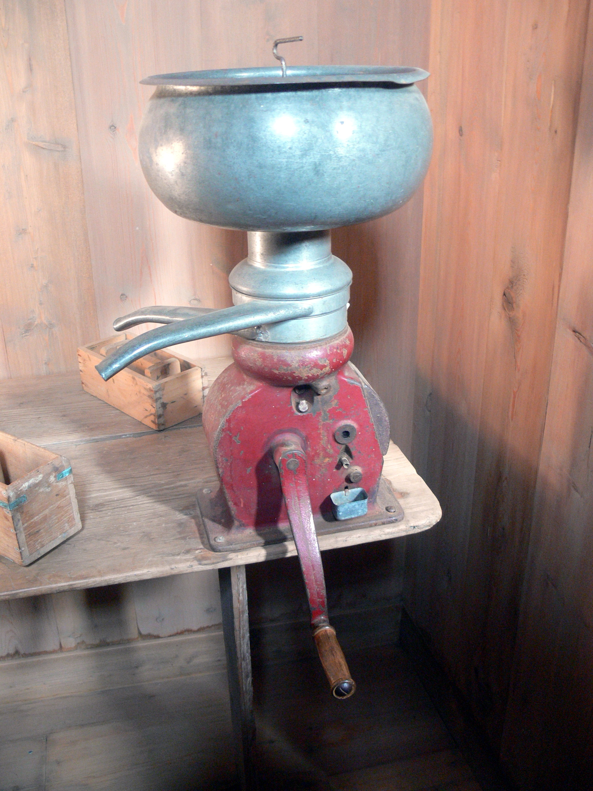 Laufas. Museum: Kitchen - milk centrifuge.